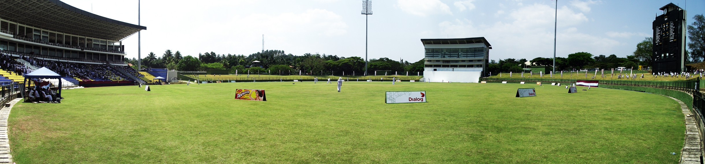 Panaromic view of the Pallekale International Cricket Stadium During Dharmaraja vs Kingswood 106th Big Match